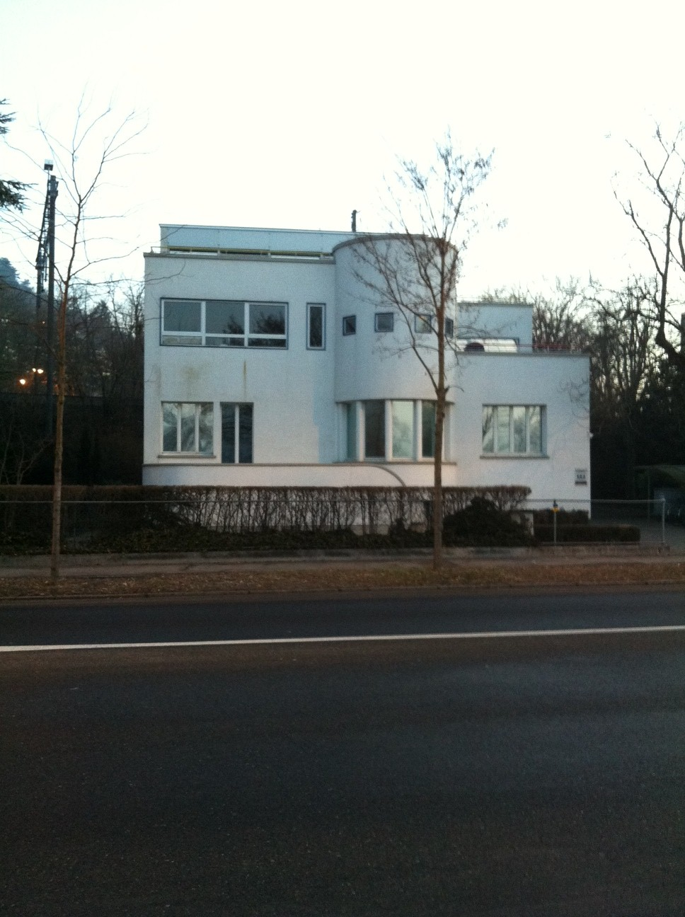 Englisch